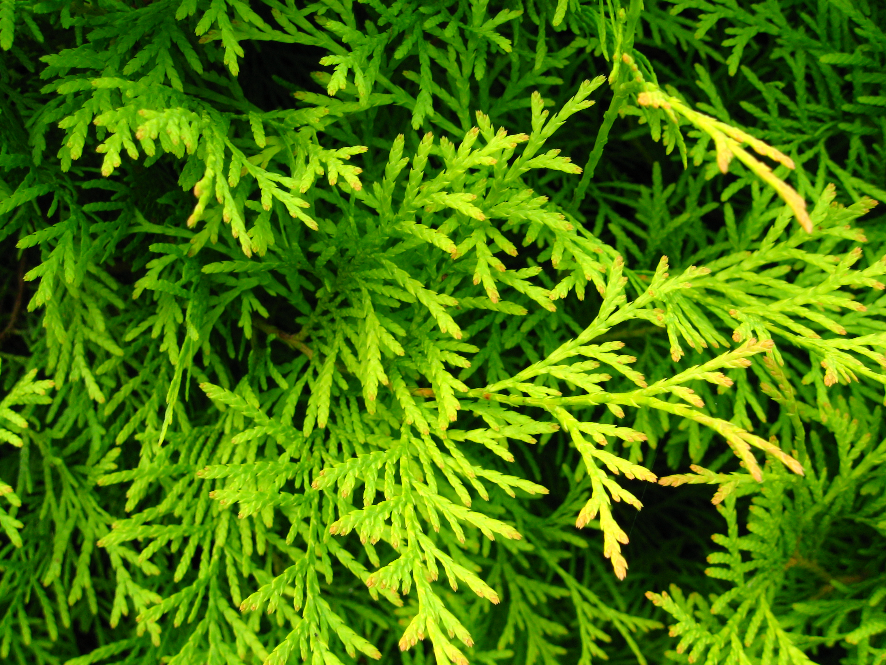 Northern Whitecedar var. Ellwangeriana Aurea (Thuja occidentalis 'Ellwangeriana Aurea')